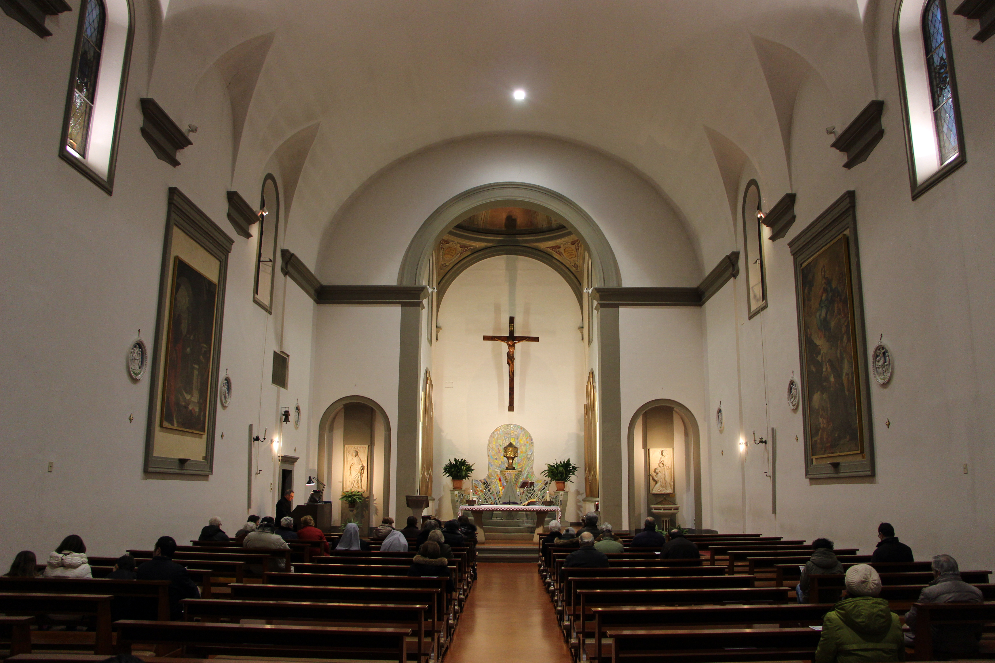 Santa Maria al Pignone - Interior